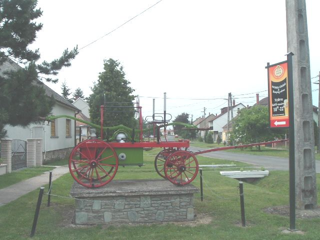 Old fire-cart in Vasasszonyfa, Hungary